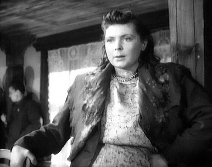 Olga Aroseva as Nadezhda in The Precious Seed (1948)